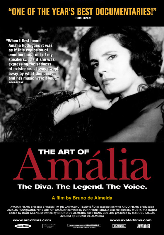 Film poster